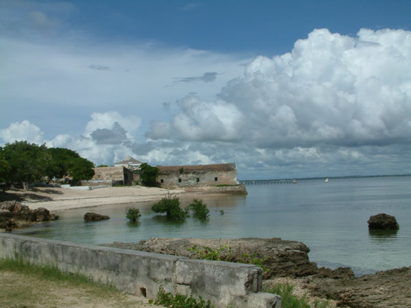 Beach of Ilha de Moçambique, Mosambik